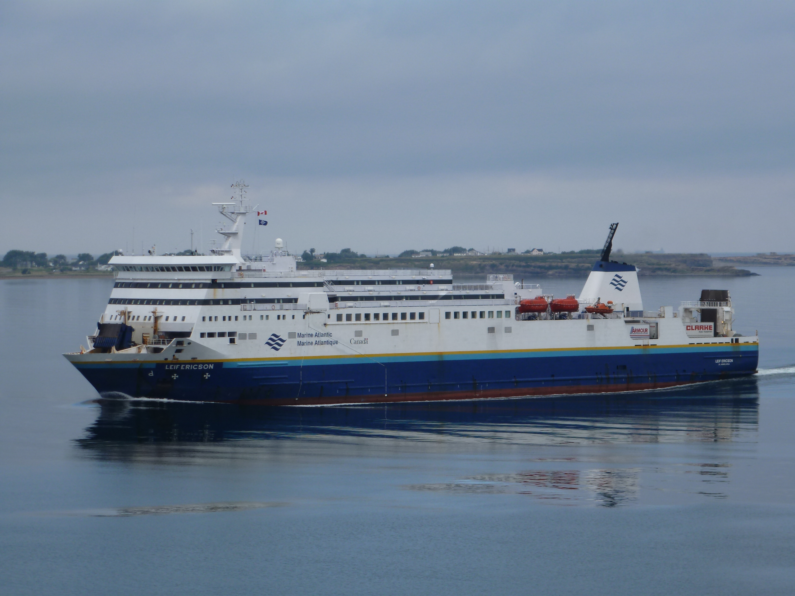 The Marine Atlantic vessel MV Leif Ericson seen entering North Sydney, Nova Scotia in August 2013.